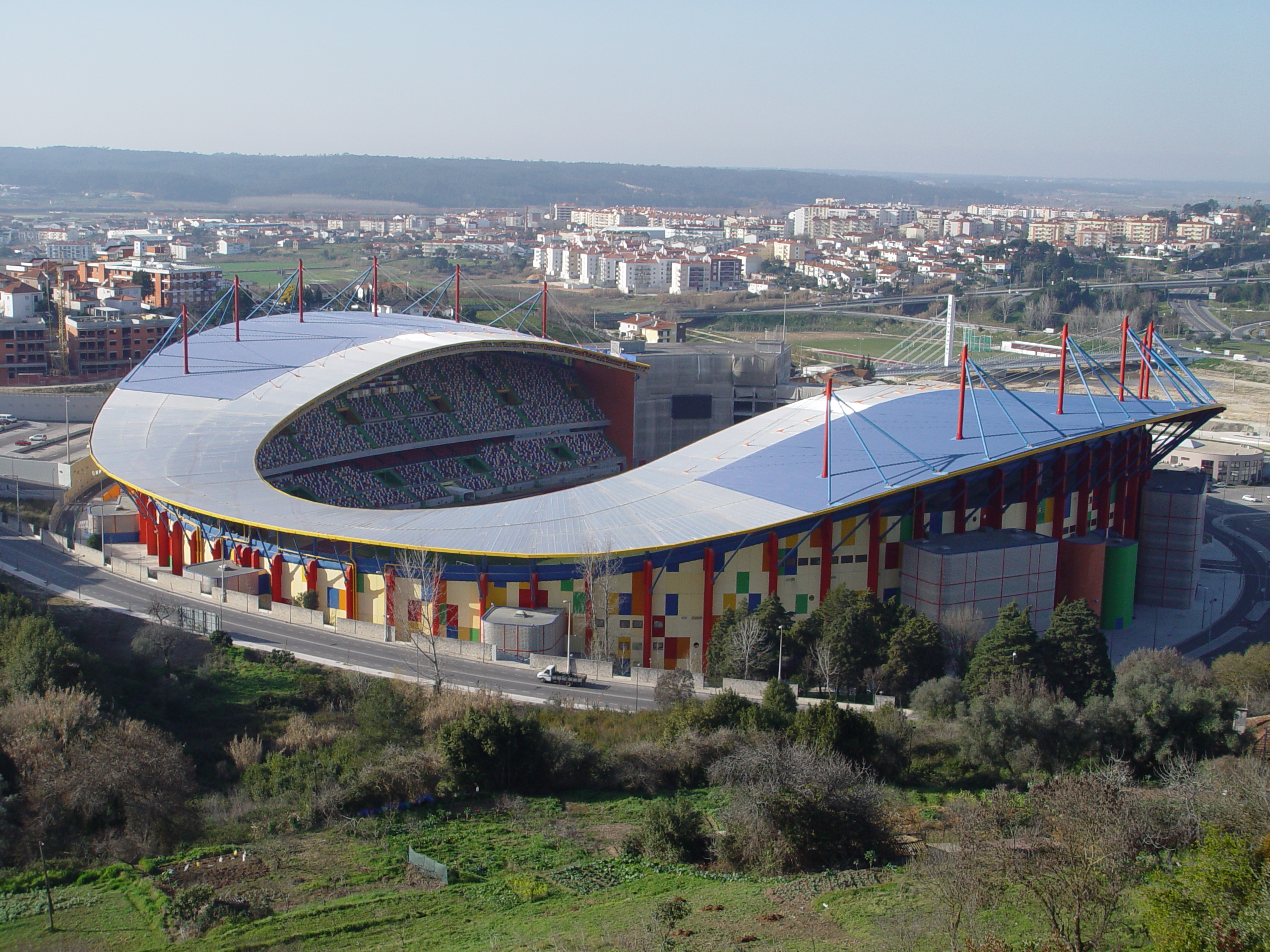 Dr. Magalhães Pessoa Stadium in Leiria, Portugal.